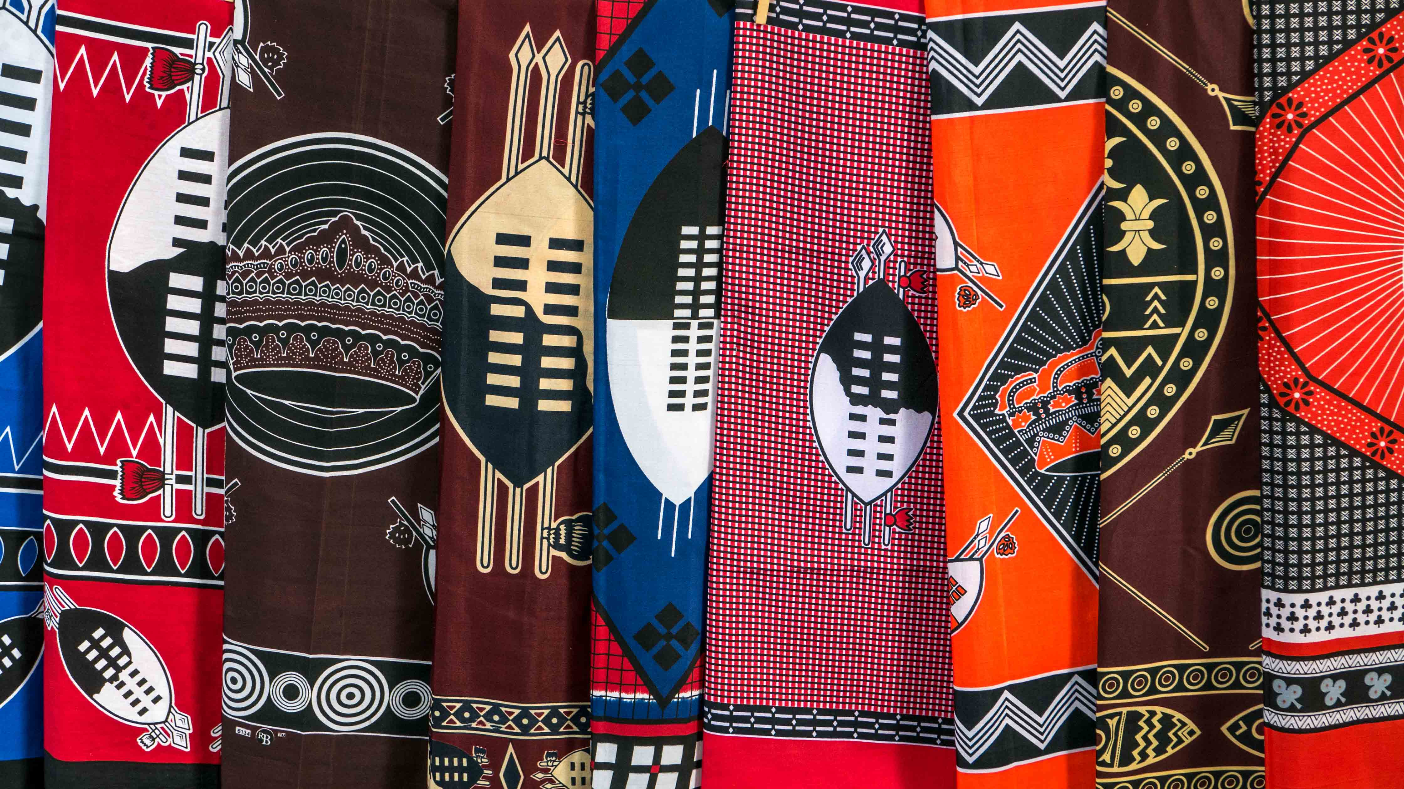 Known as "lihiyas", these colourful cloths are tied at the waist to produce a wraparound skirt for women. This is an image of Cultural Fashion or Adornment from Eswatini